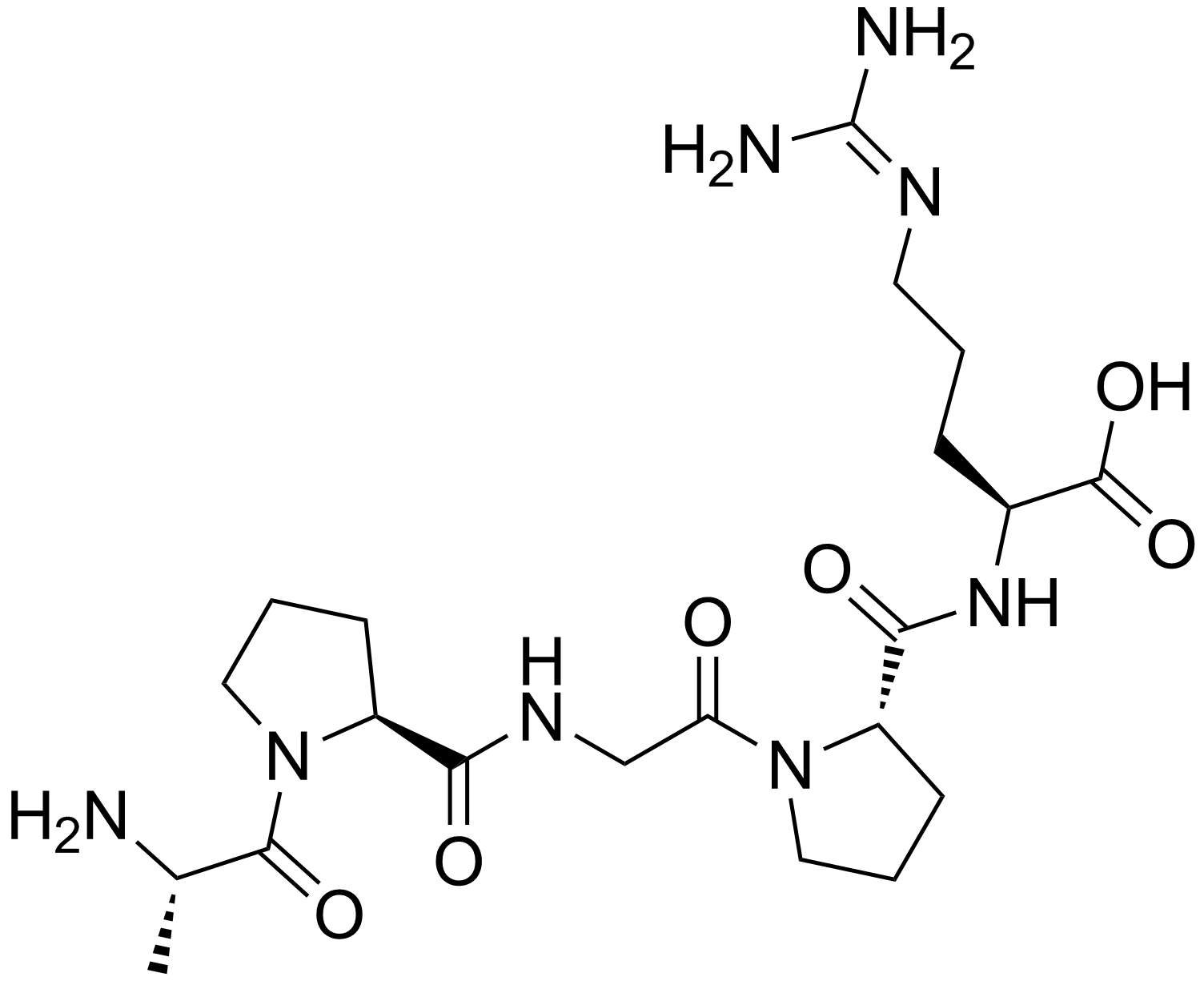 Chemical structure of enterostatin (Procolipase activation peptide; APGPR; L-Alanyl-L-prolylglycyl-L-prolyl-L-arginine)